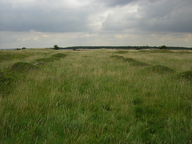 Bardney Abbey nave. Looking east down what would once have been the nave to the great abbey church with the tumulus known as 'King's Hill' on the horizon